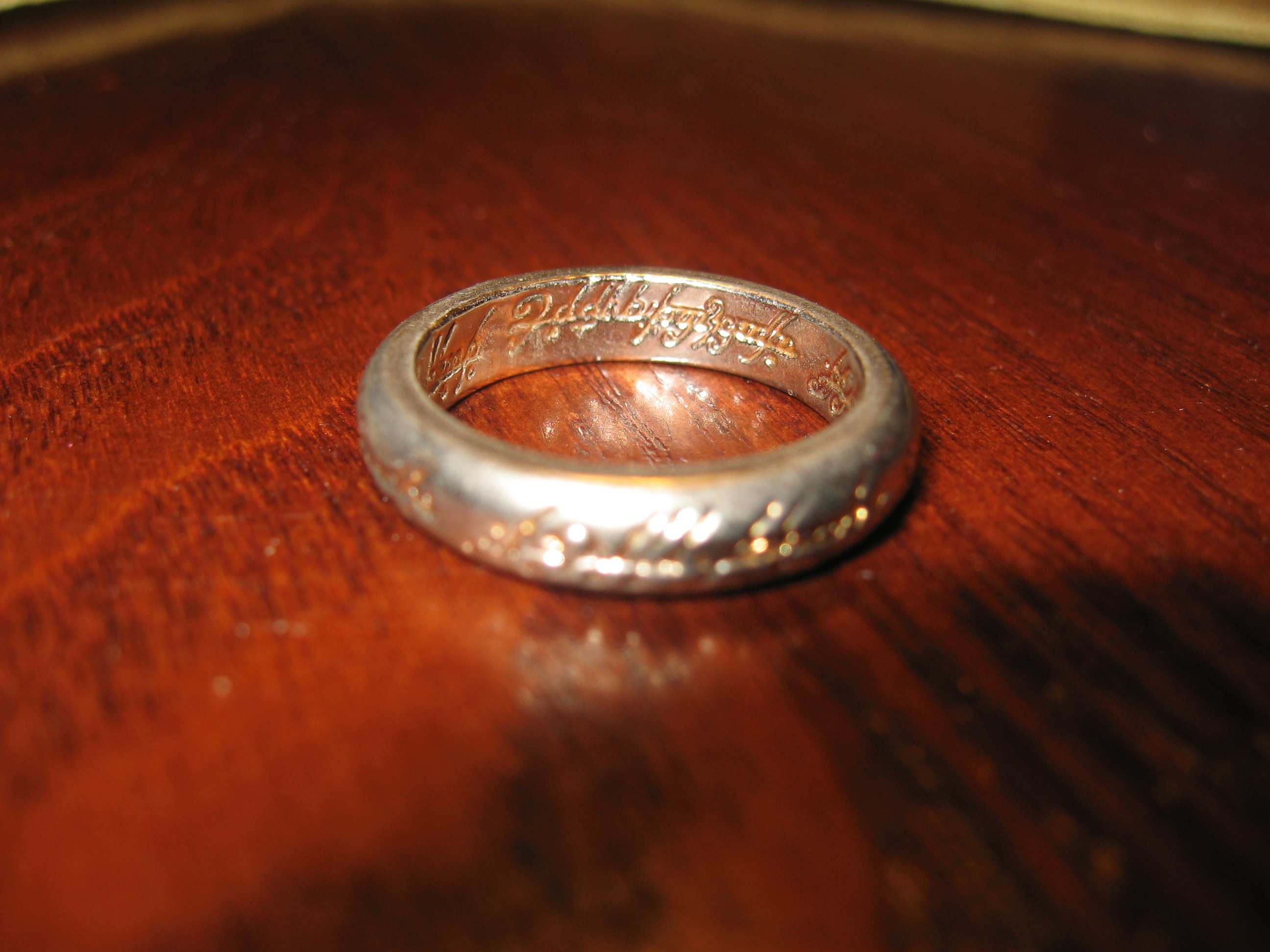 Replica of the One ring from The Hobbit and The Lord of the rings trilogy.